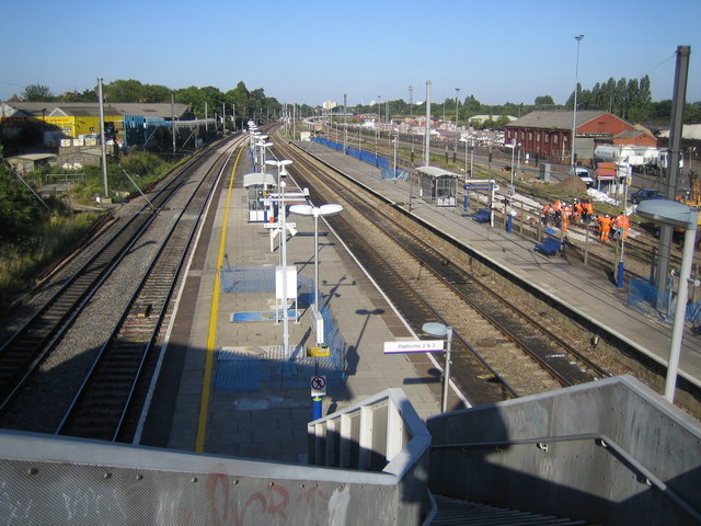 Acton Main Line railway station